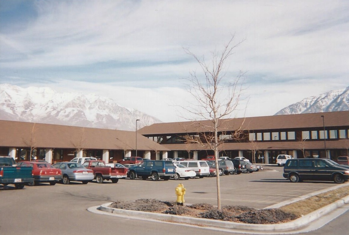 The offices of software company Caldera Systems, Inc. (building on the right) at 240 West Center Street in Orem, Utah, as seen in January 2001. The Wasatch Range is in the background.